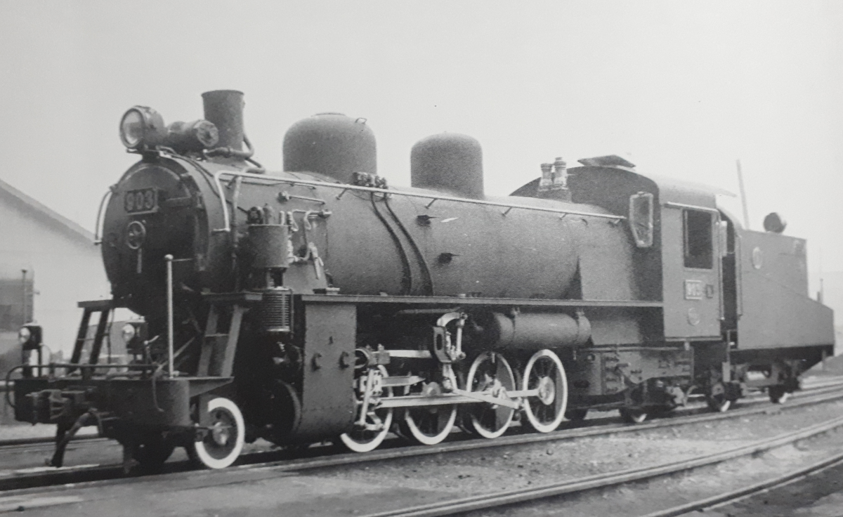 Class 900 steam locomotive of the Chosen Railway